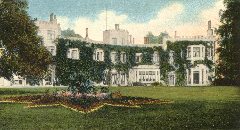 Glasshayes in Lyndhurst (The New Forest, Hampshire, England), later the Lyndhurst Park Hotel.